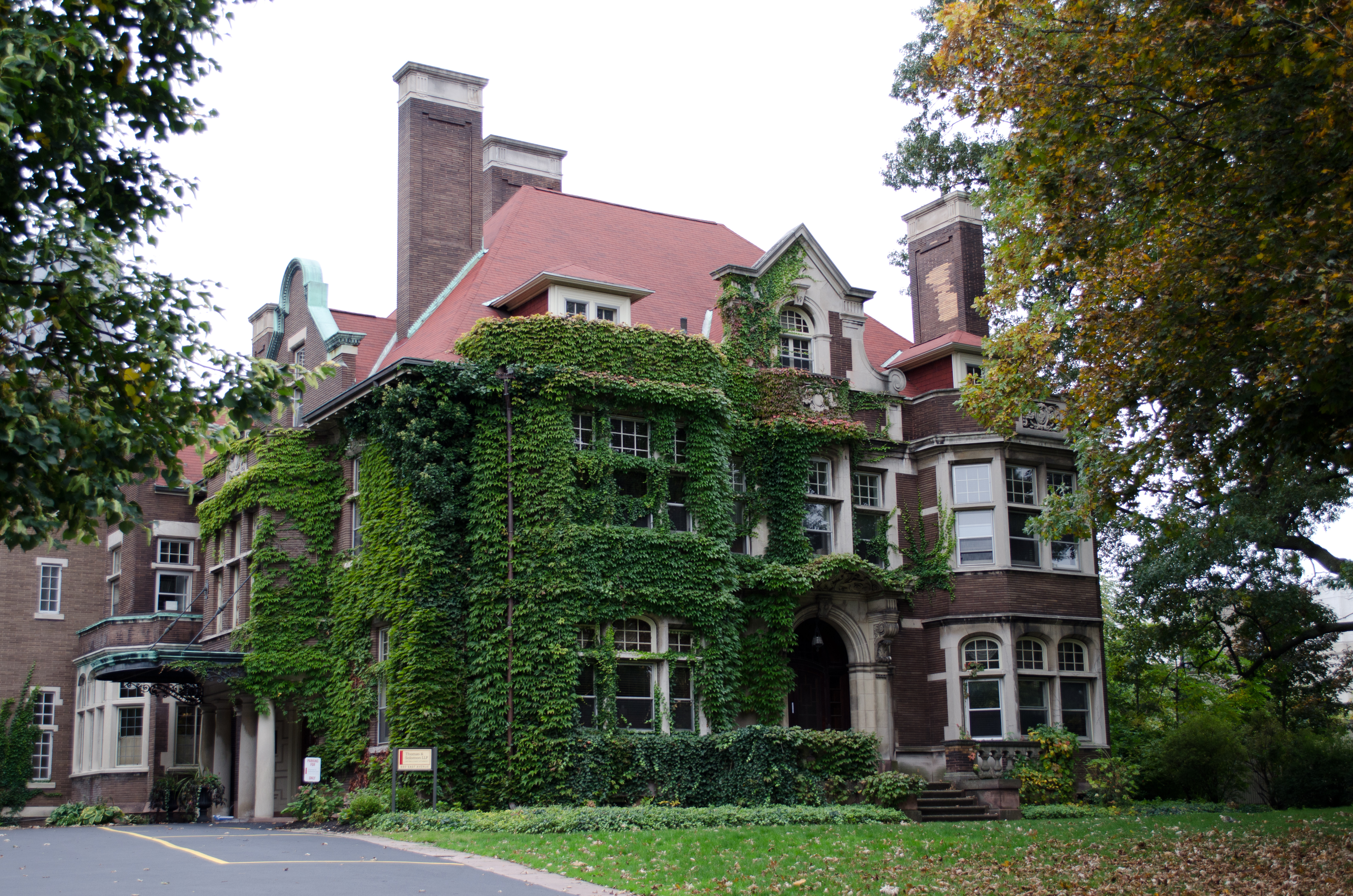 The Strong-Todd House on East Avenue in Rochester, New York, one of the historic buildings in the East Avenue Historic District.